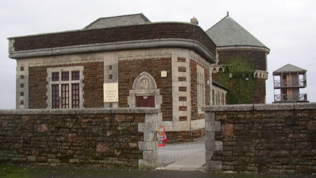 Senhouse Museum, Maryport. This building was built in 1885 as a Naval Reserve Battery. It is next to the earthworks of a large Roman Fort, and has been converted to house an important museum of Roman artifacts, a collection started by John Senhouse in the 1570s. At NY037373.